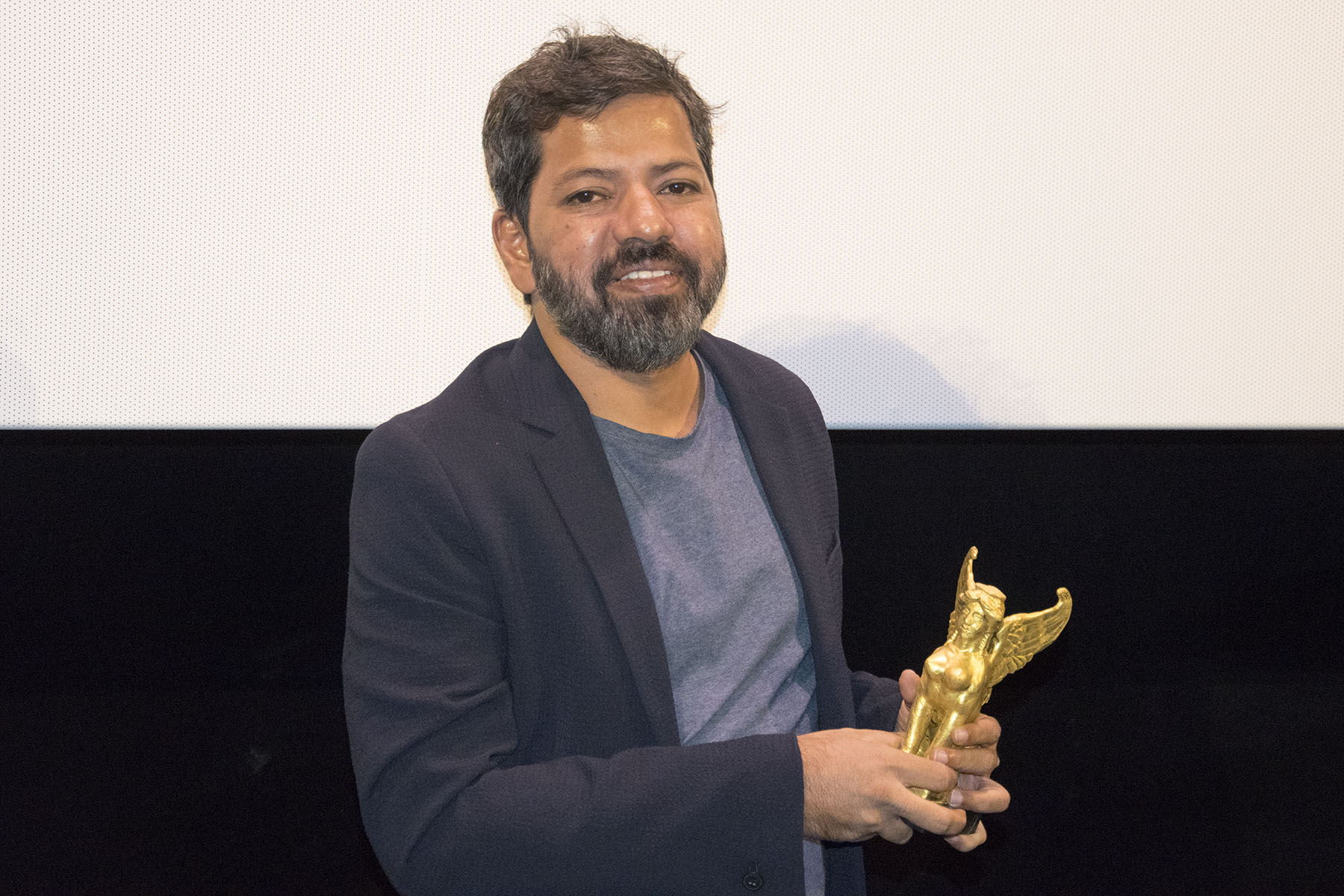 Director Bardroy Barretto receiving his Grand Prix for the film "Let's dance to the Rhythm" at the VIFF 2016 Vienna Independent Film Festival